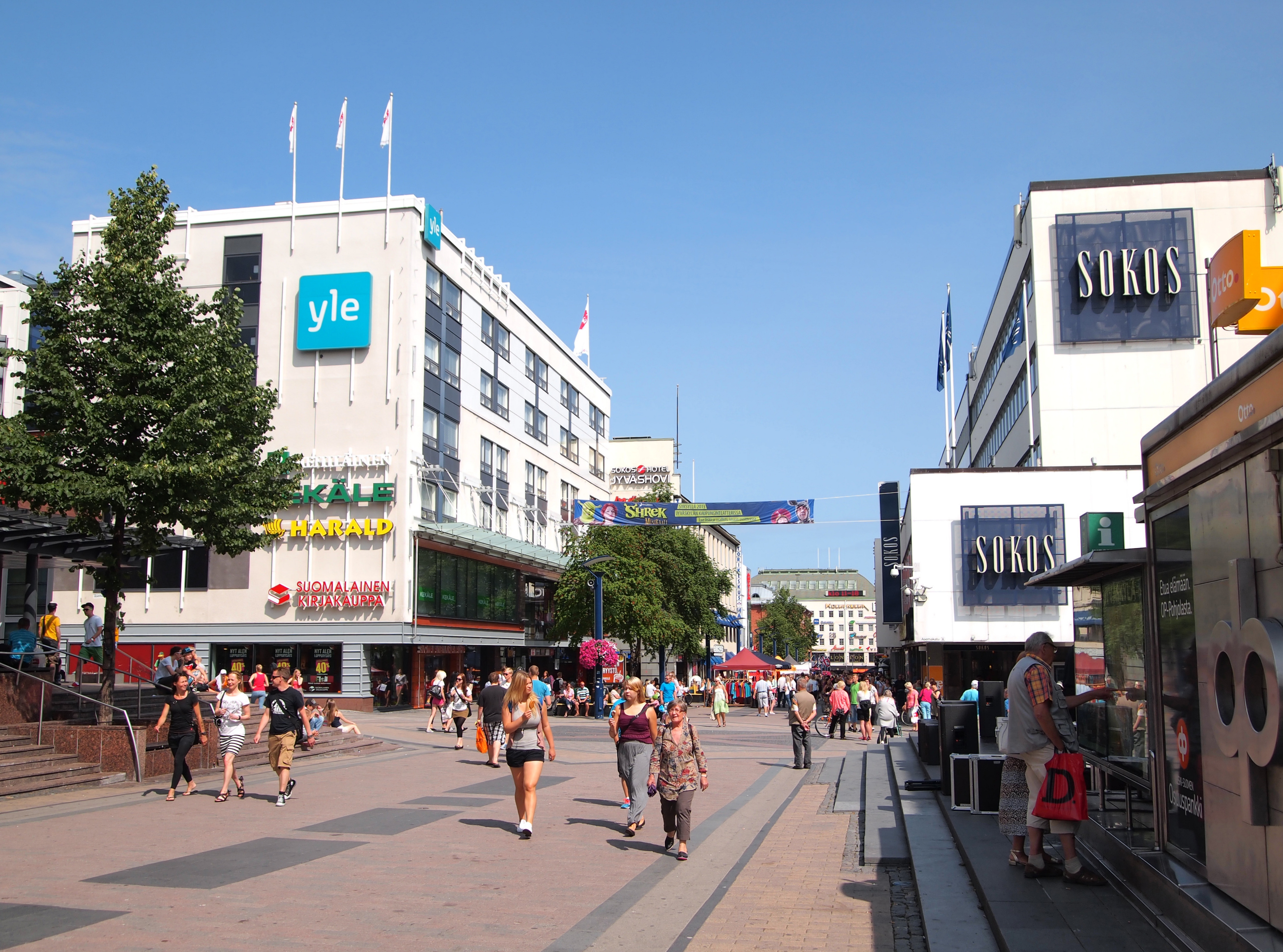 View along the street Kauppakatu in Jyväskylä centre. This photograph was taken with an Olympus E-PL1